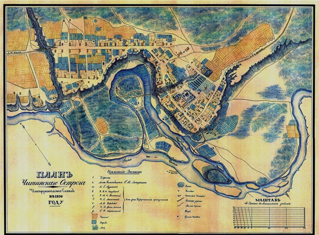 План Читинского острога, 1830 год